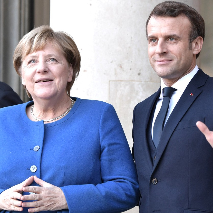 Angela Merkel and Emmanuel Macron in Paris